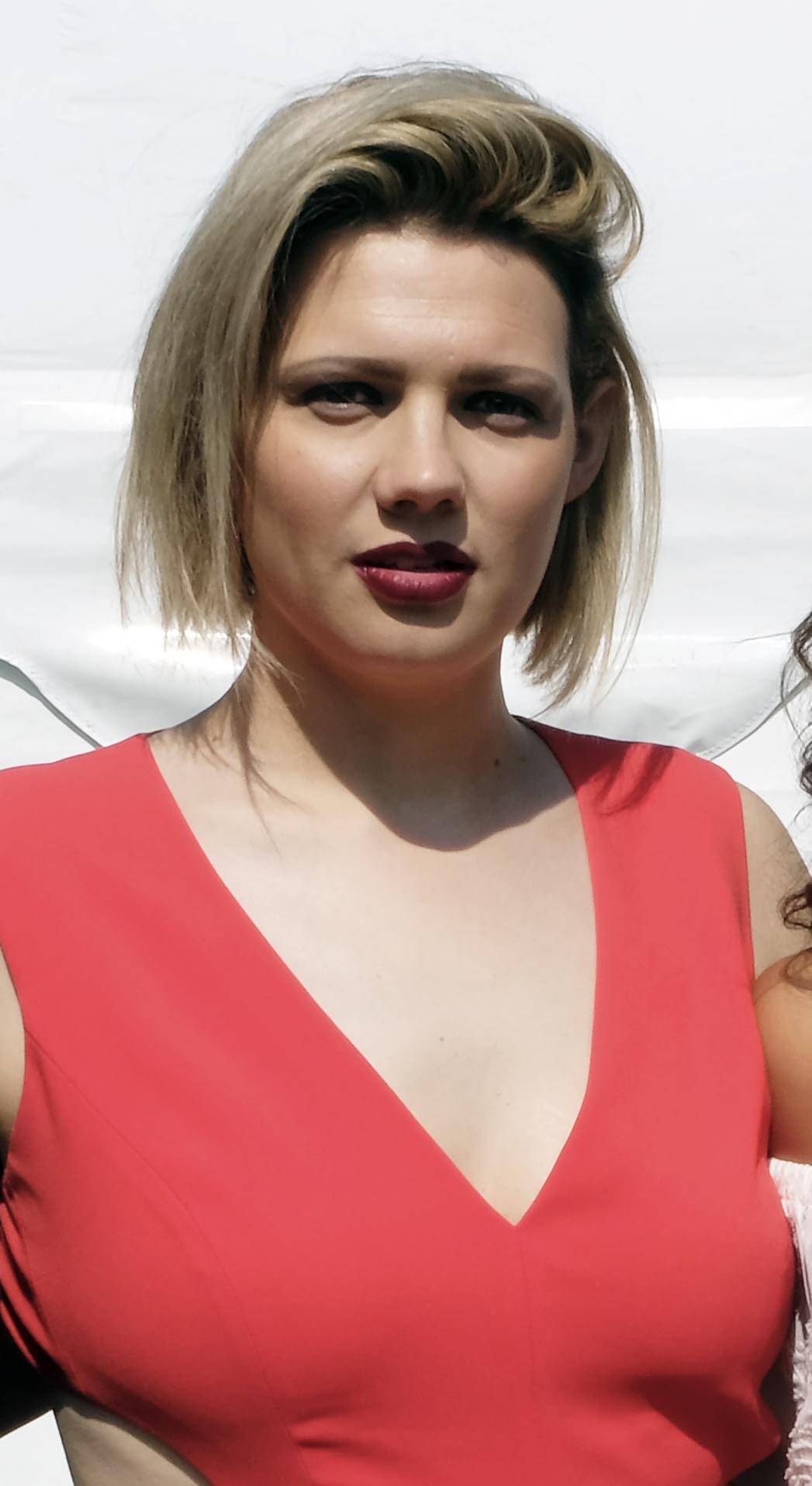 CFC resident D.W. Waterson at the 2017 CFC Annual BBQ Fundraiser. Photo by Tom Sandler.